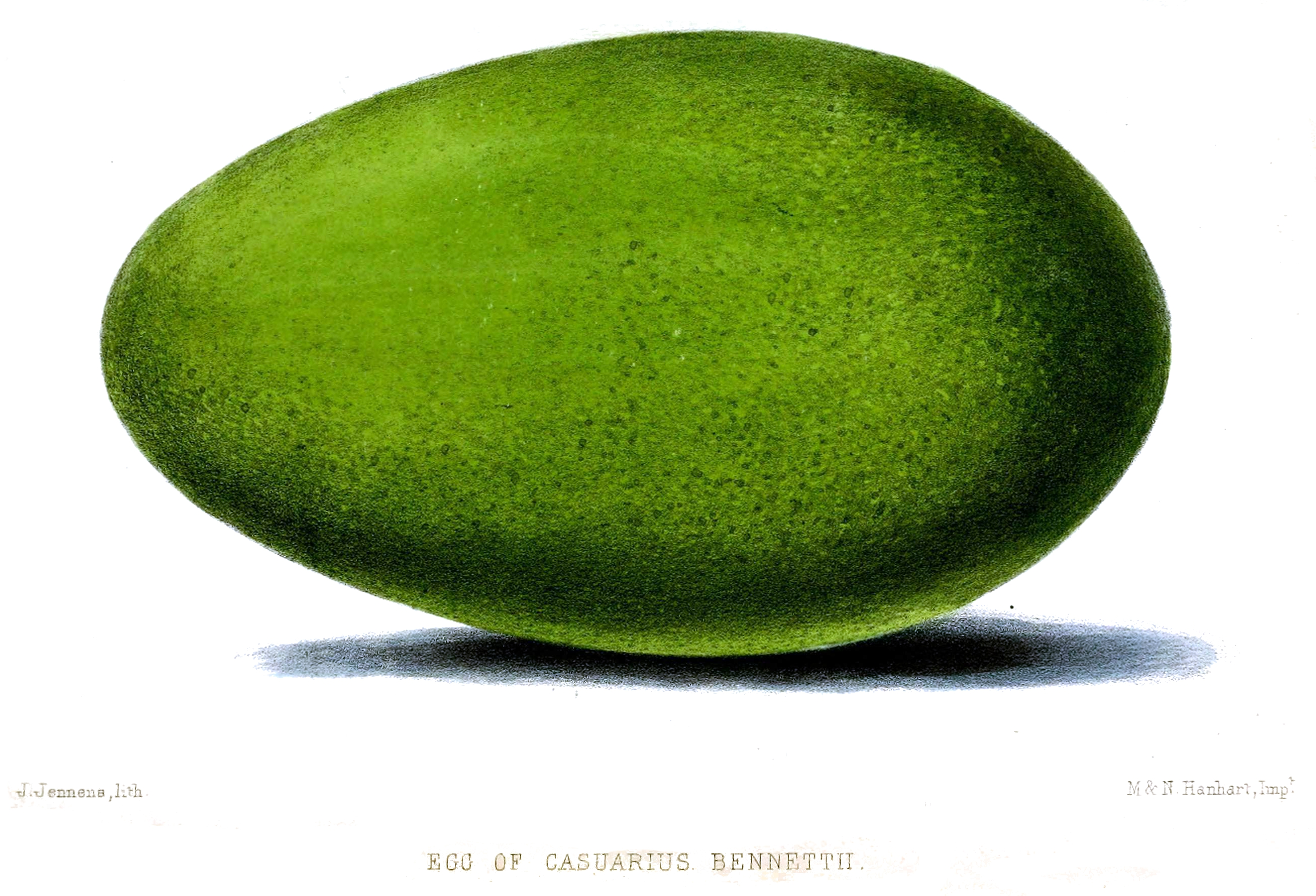 Egg of Casuarius bennettii